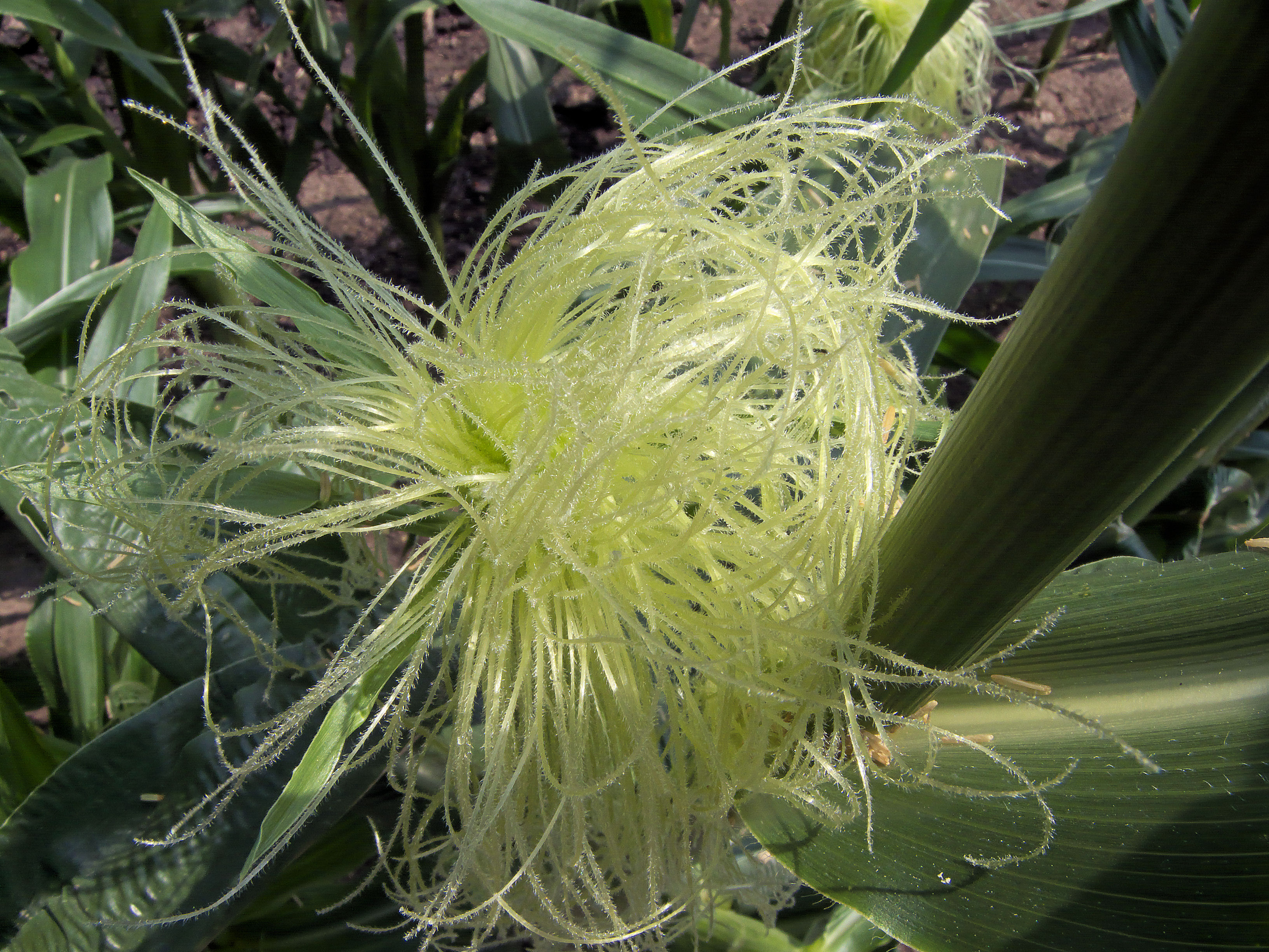 Zea mays silk of sweet corn